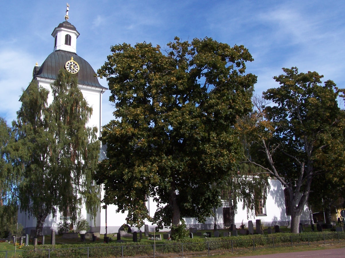 Gnarp church, Sweden